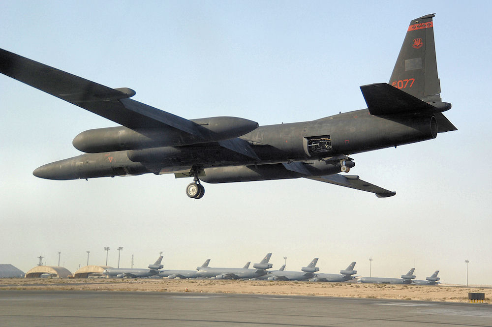 Brig. Gen. H.D. Polumbo Jr., the 380th Air Expeditionary Wing commander, comes in for a landing on his final flight at the helm of a U-2 Dragon Lady, May 22 at an undisclosed location in Southwest Asia. General Polumbo will relinquish command of the 380th AEW on June 14th and move to Air Combat Command headquarters. (U.S. Air Force photo by Senior Airman Brian J. Ellis) (Released)